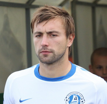 Oleksiy Antonov